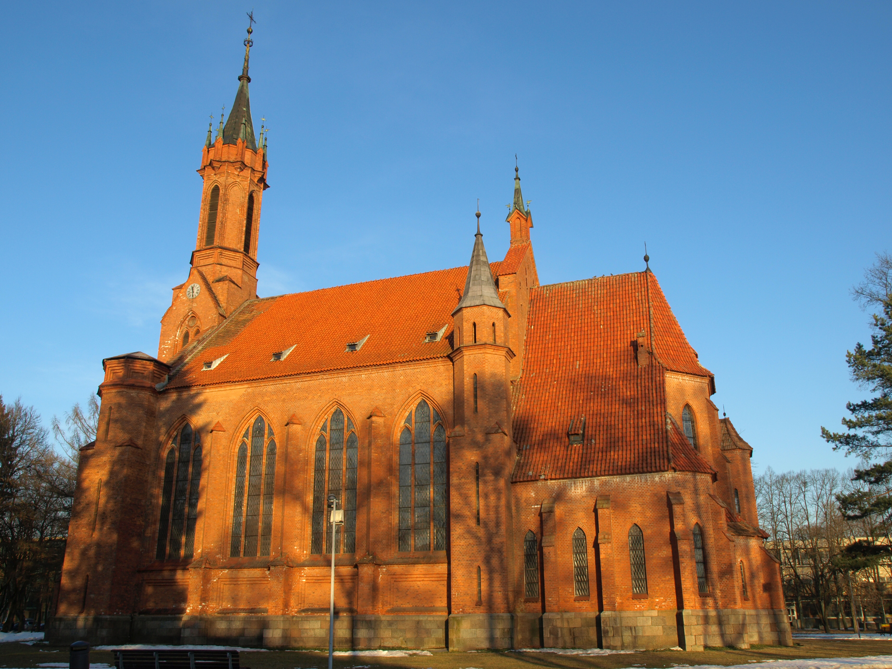 Saint Mary's Scapular church in Druskininkai, Lithuania